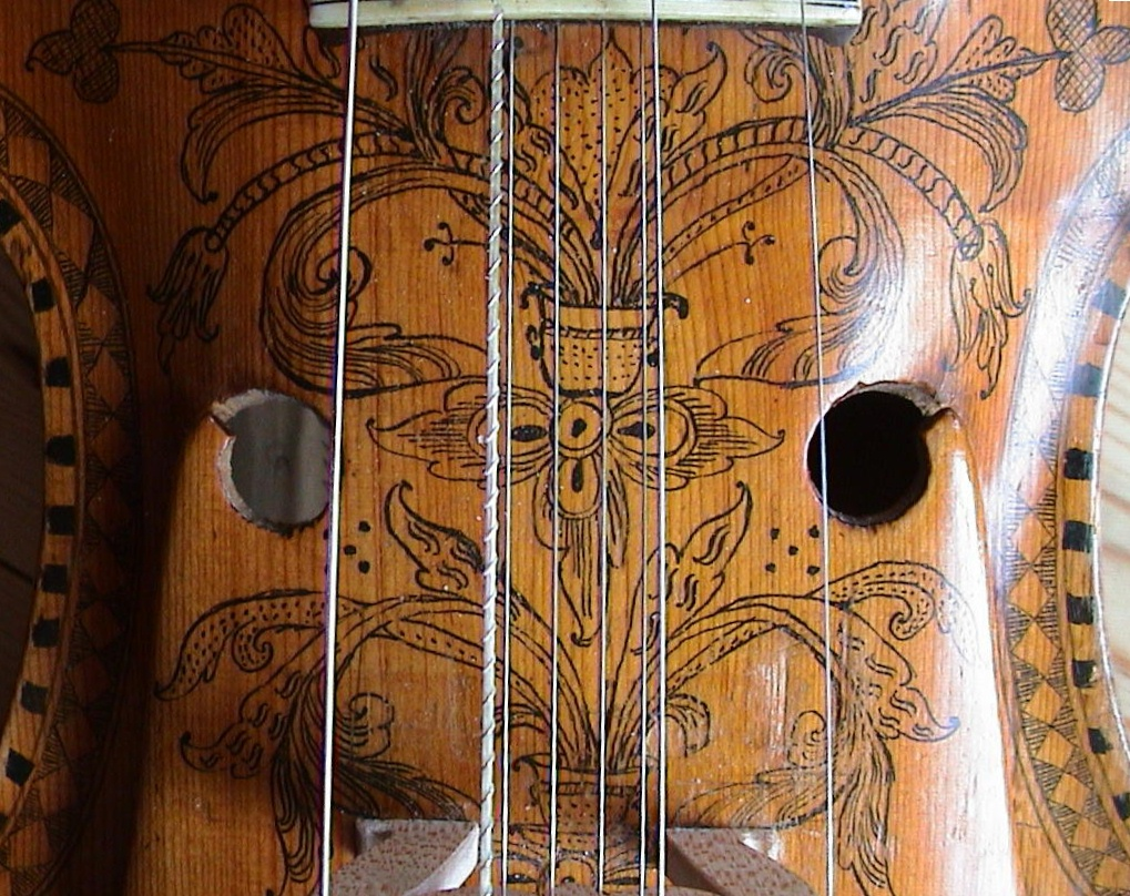 A Hardanger fiddle made by Knut Gunnarsson Helland. Owned by Monica Skaro, who inherited it from her grandfather Knut Skaro from Geilo, Norway.